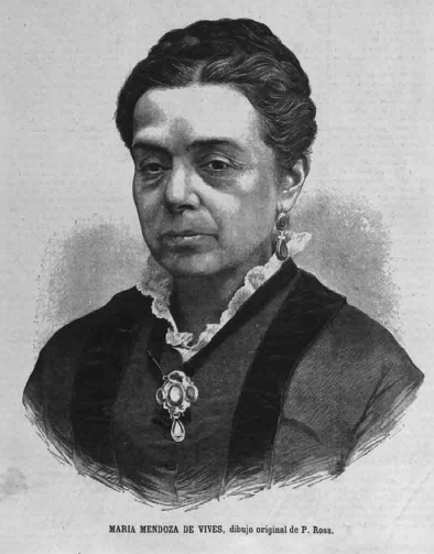 Ilustración de la Mujer Revista número 15